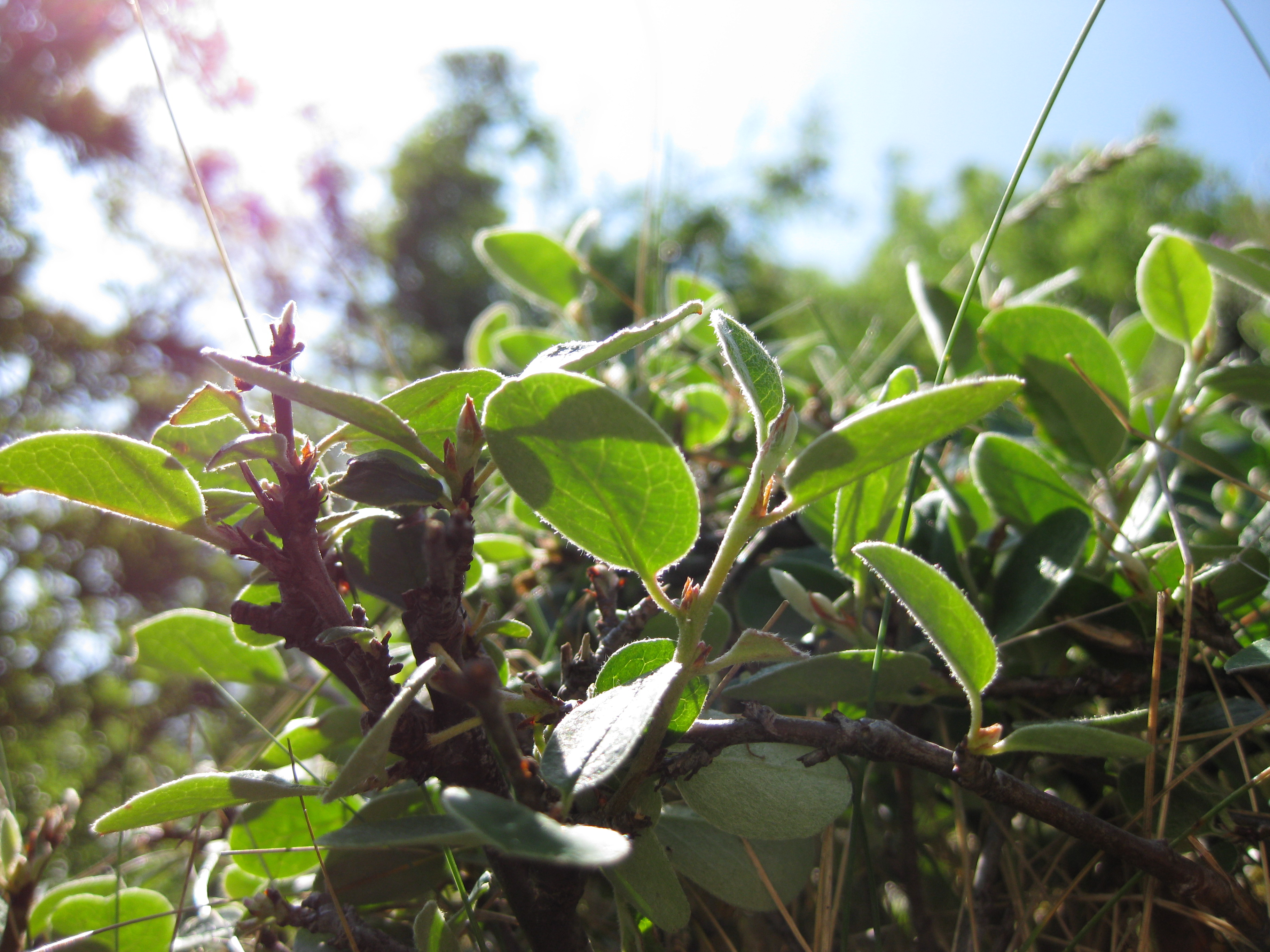 Field sampling for DNA barcoding on the Great Orme, Llandudno The Barcode Wales Paper